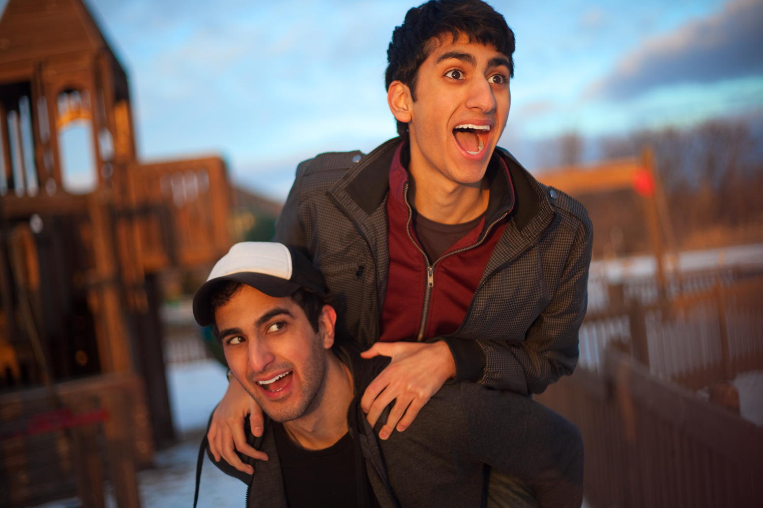 Homam (left) and Mollie (right) of the DecimalBrothers.